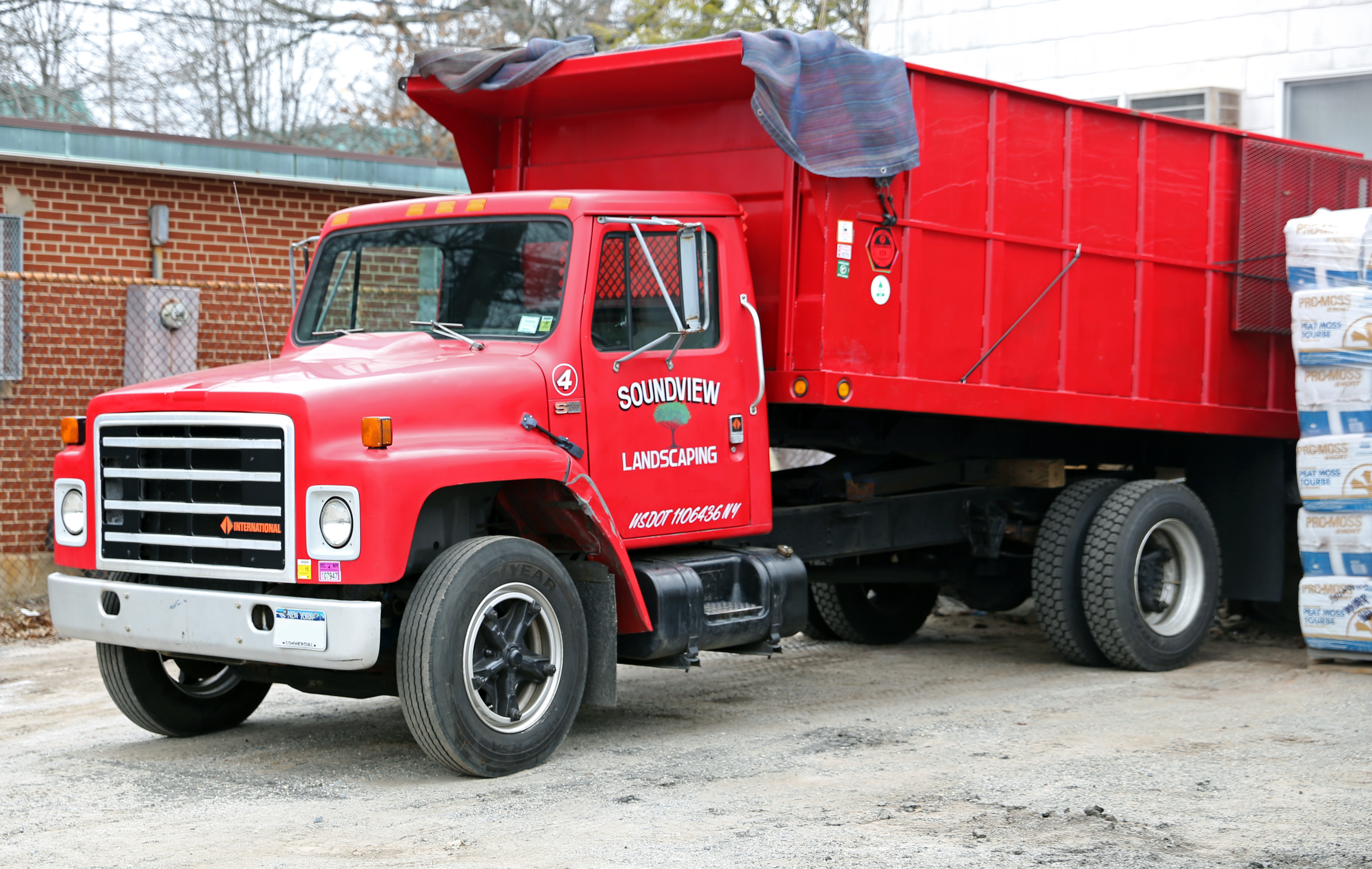 A 1989 International (Navistar) S1754 (S1700 series) diesel 2WD dump truck, 68 inches ABC (front Axle to Back of Cab). Navistar DT-360 (5.9 litres) engine with 180hp.